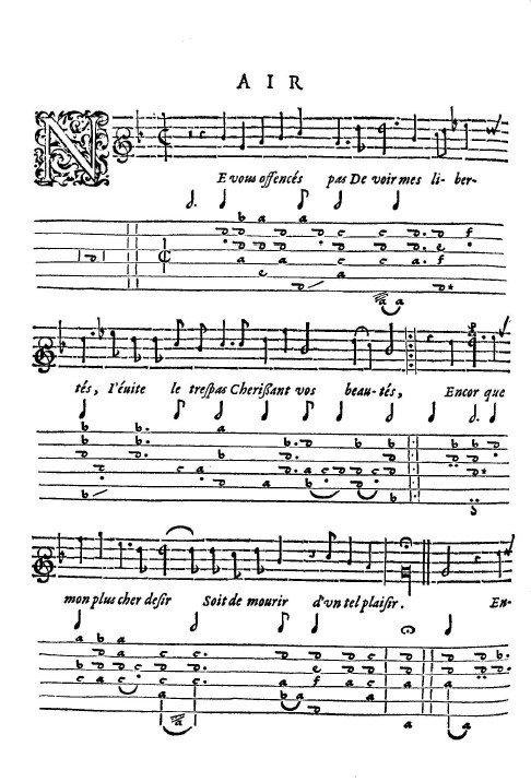 Air by Paul Auget in "Airs de différents atheurs..." (Paris : Pierre I Ballard, 1617).